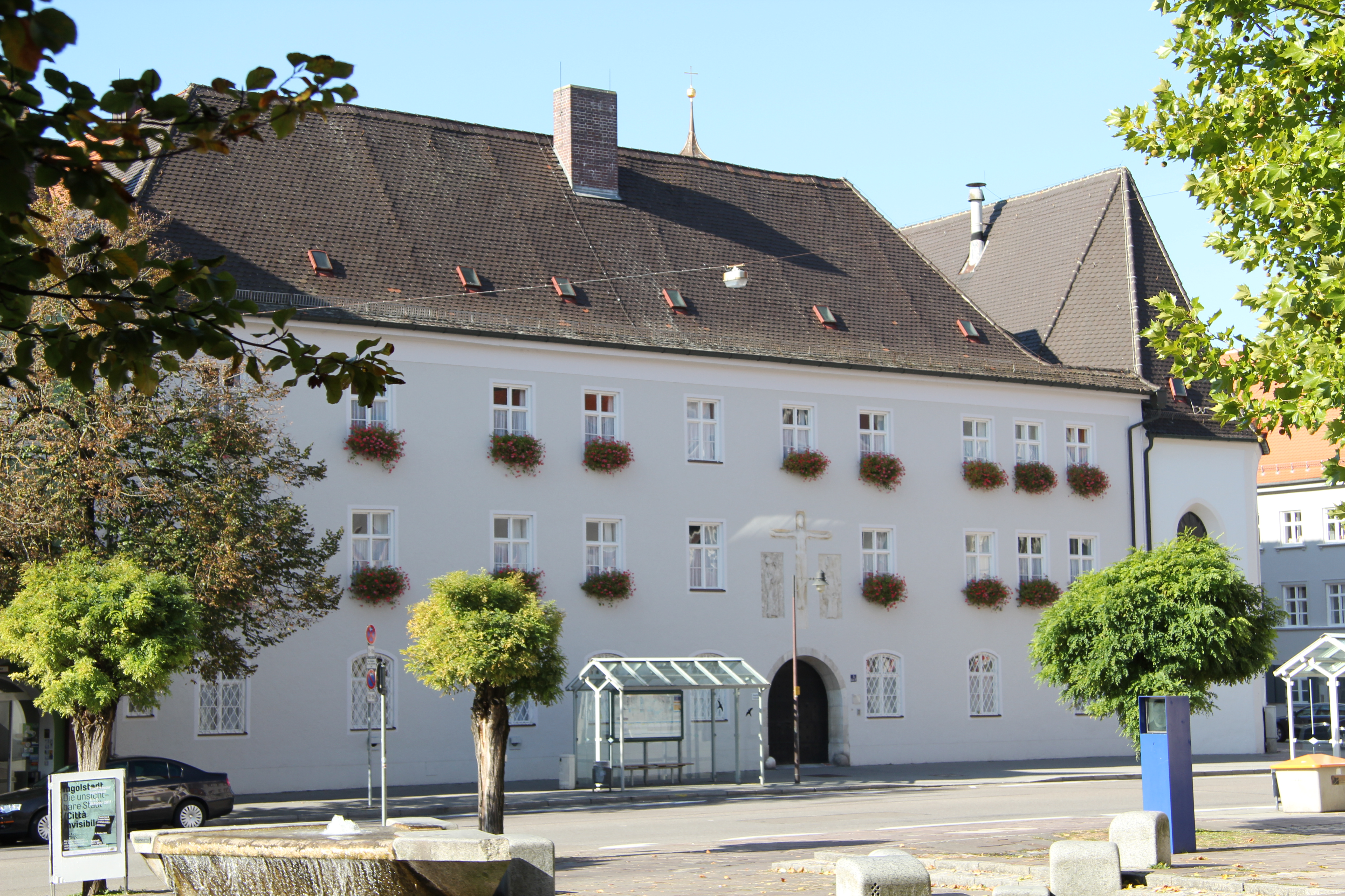 Ingolstadt, monastery Gnadenthal with church, Harderstraße